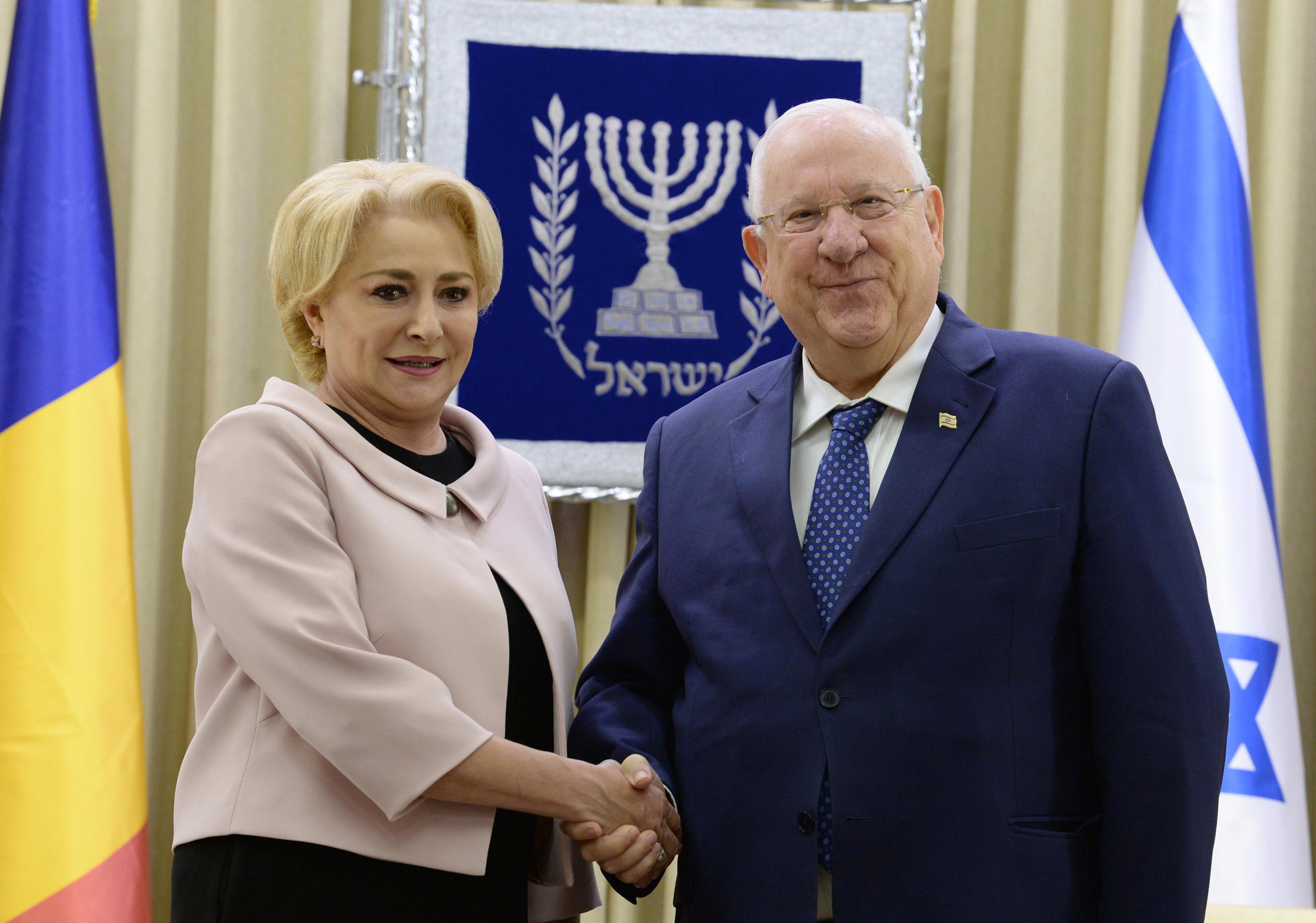 President of Israel, Reuven Rivlin, In a meeting with the head of the Romanian government, Viorica Dăncilă, as part of her official visit to Israel. Thursday, April 26, 2018. Photo Credit: Mark Neyman / GPO. Depicted people: Reuven Rivlin and Viorica Dăncilă